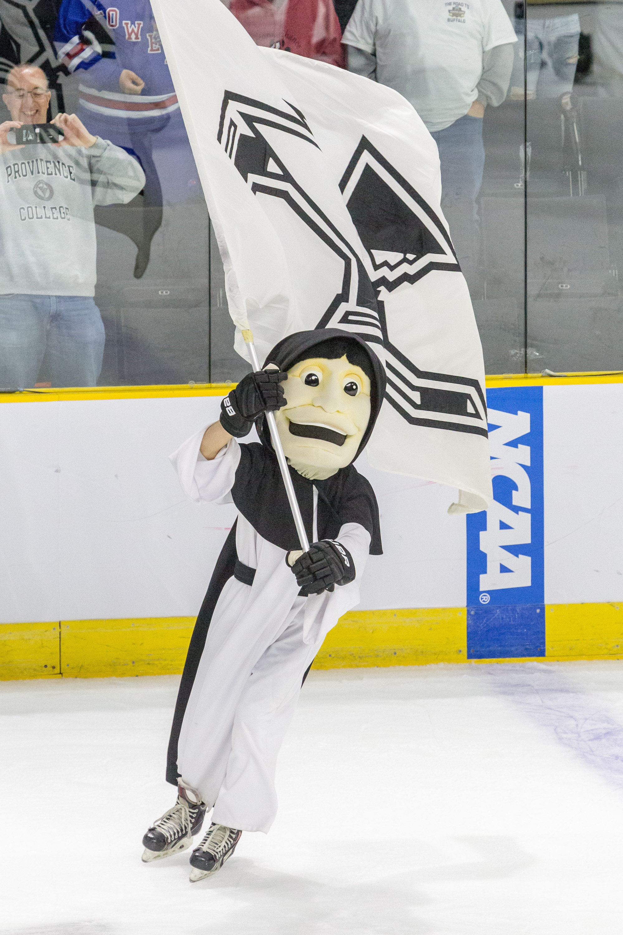 Providence College's mascot, Friar Dom. Taken at Cornell vs. Providence College NCAA ice hockey game, April 5, 2019.